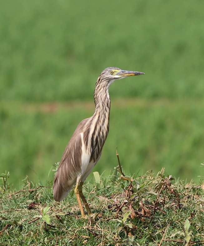 Pond heron